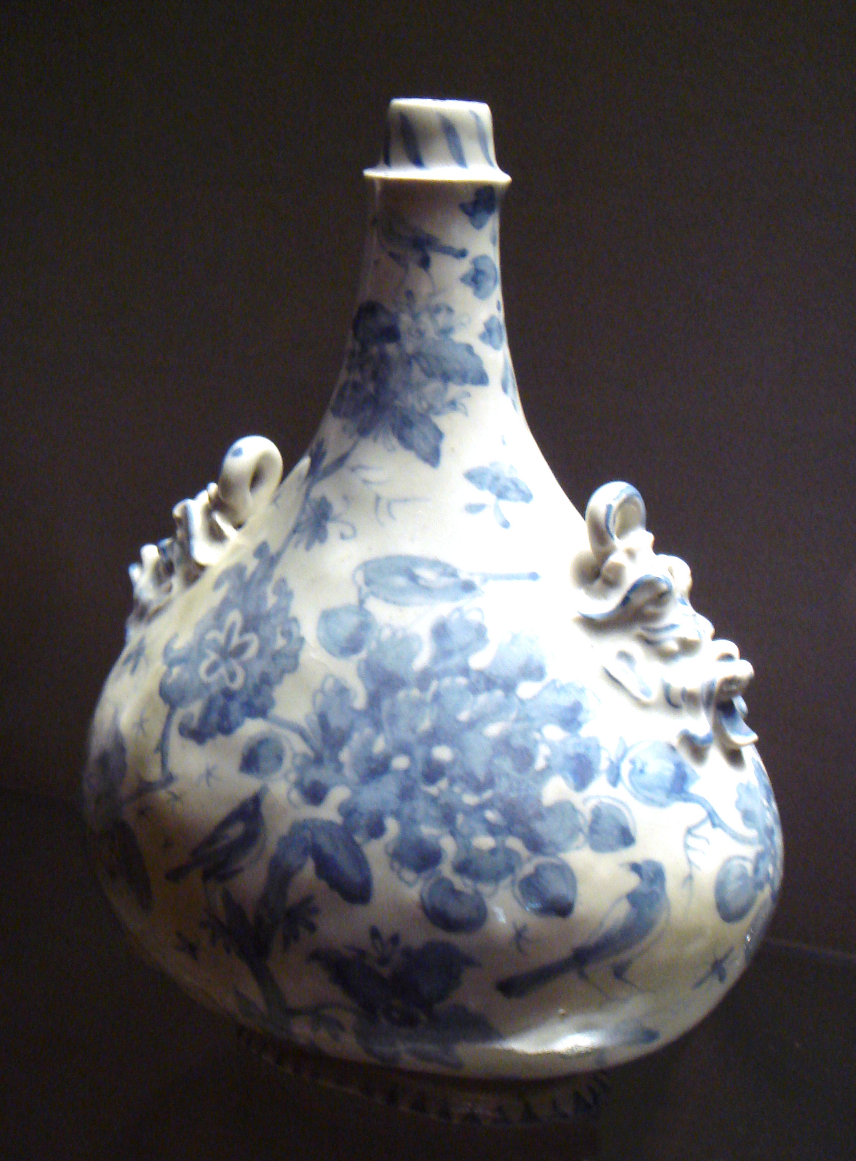 Medici_porcelain_gourd_1575_1587.